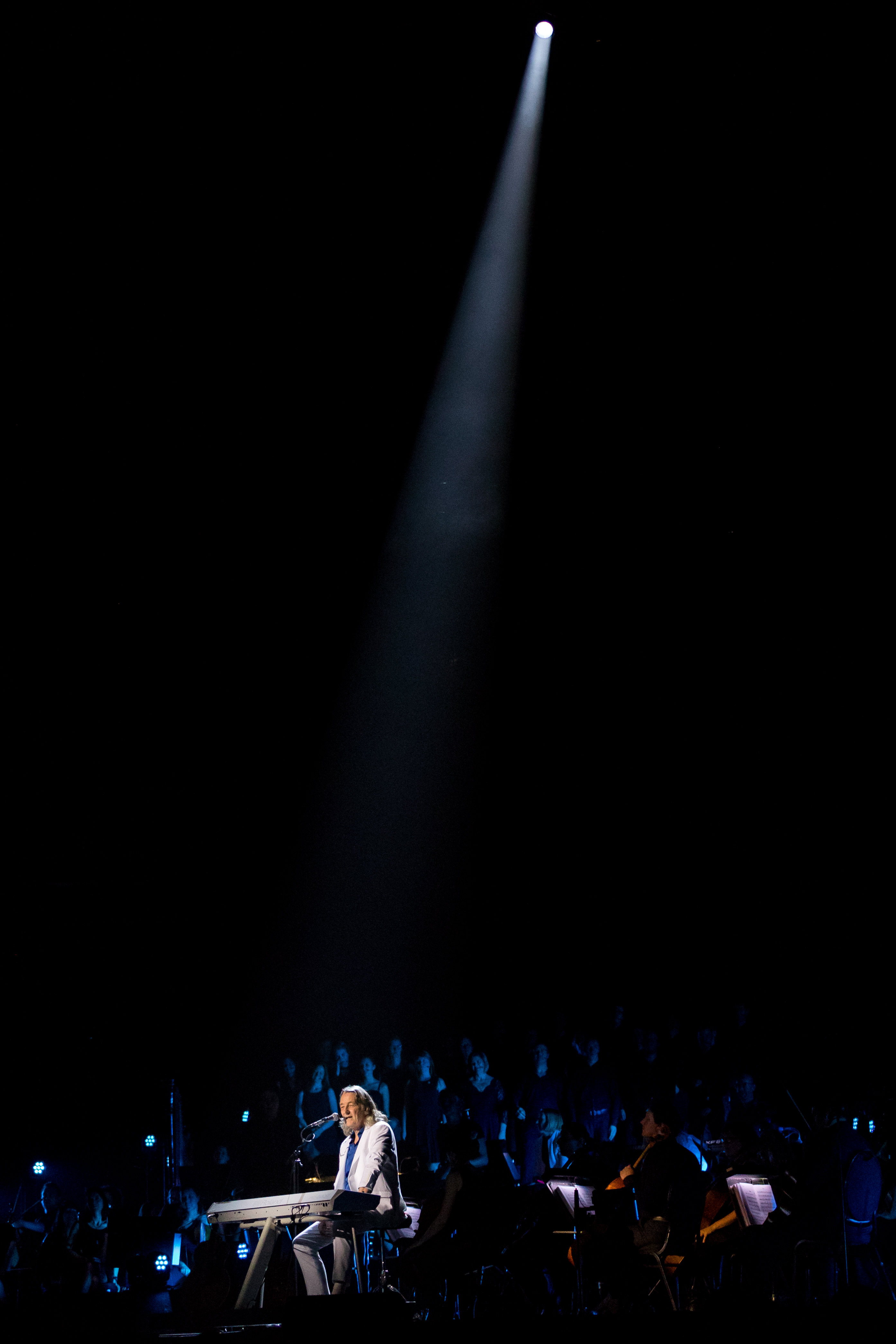 Roger Hodgson during Night of the Proms at SAP Arena, Mannheim, Baden-Württemberg, Germany on 2017-12-22, Photo: Sven Mandel